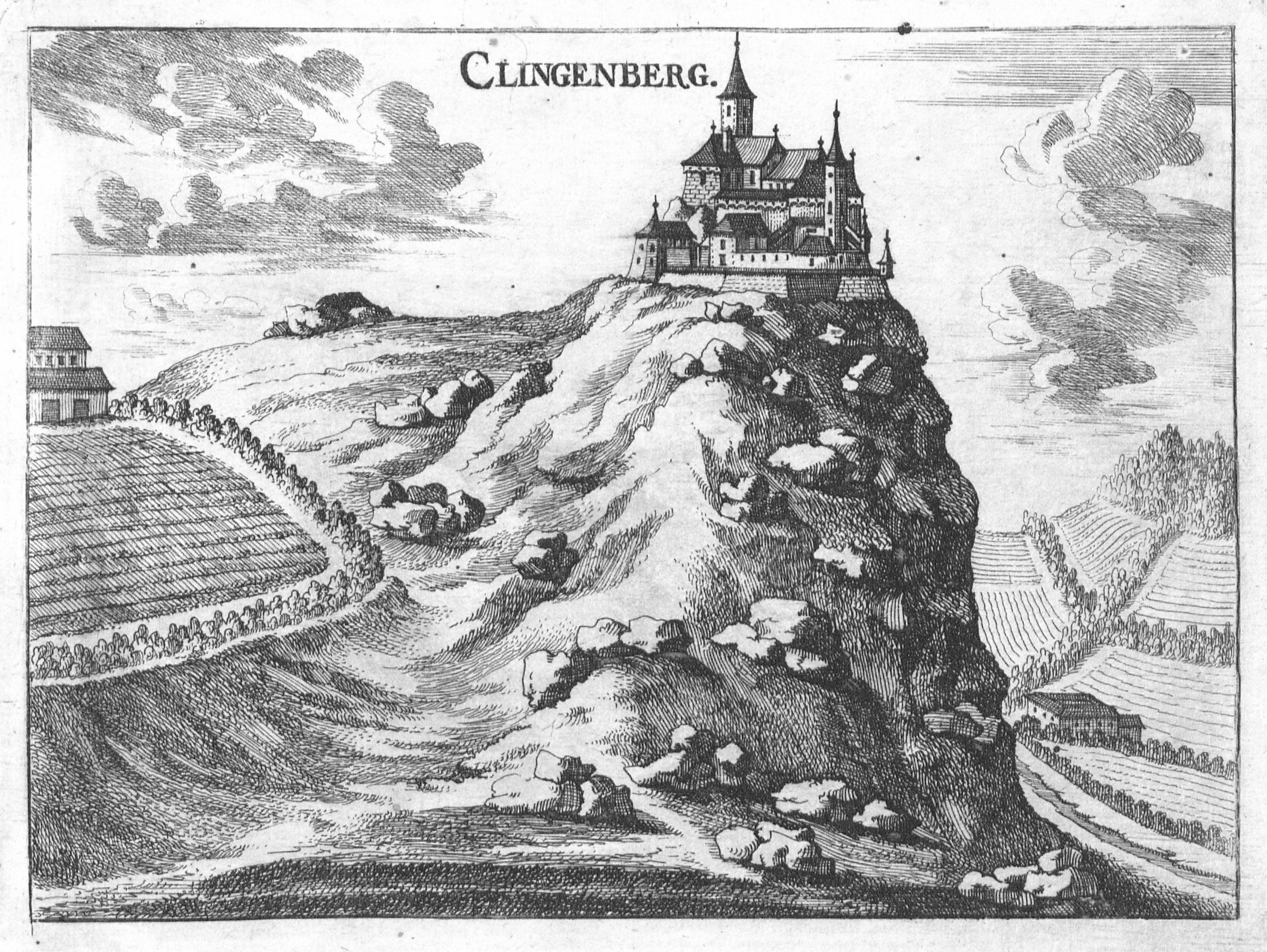 Engraving, view of Klingenberg castle, Upper Austria